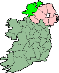 map of County Donegal, Ireland 08:23, 10 March 2006 Boothy443 200x249 (30153 bytes) 08:04, 5 February 2004 Morwen 200x249 (30153 bytes) (map)